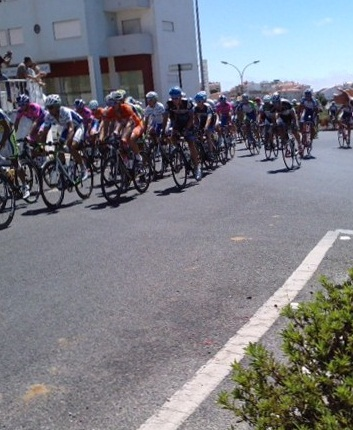 Volta a Portugal 2011, 15-08-2011 (last stage). Paz, Mafra